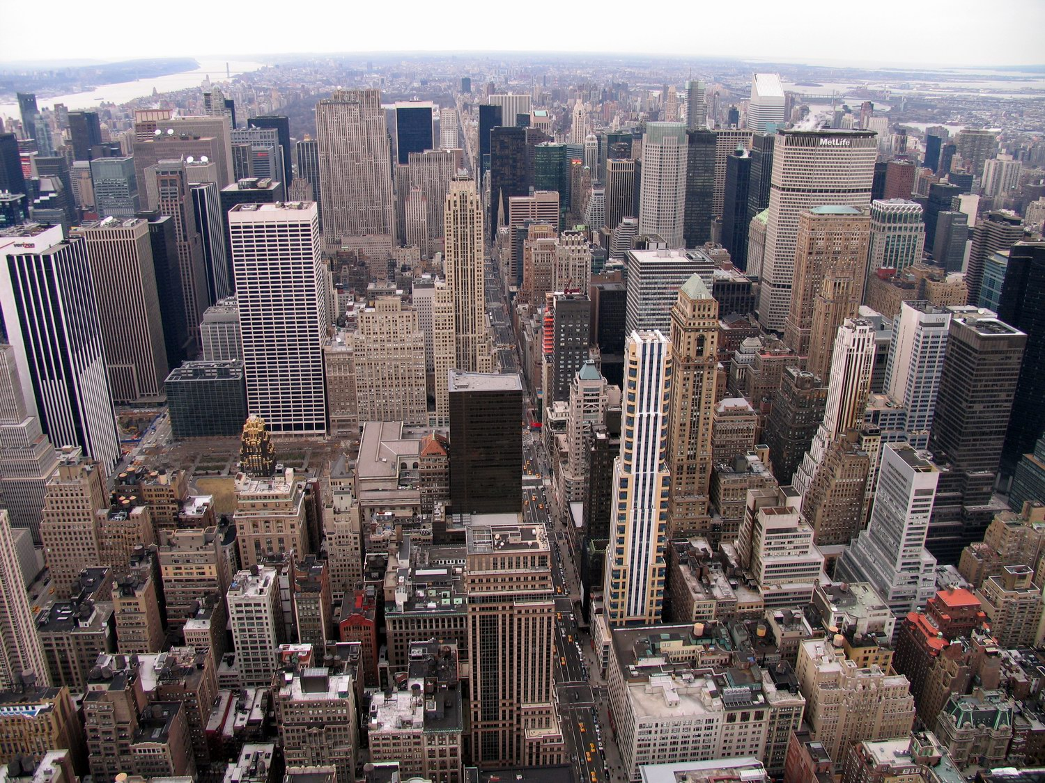 New York - View from Empire State Buildung Author: Bernd Untiedt, Germany January 2005